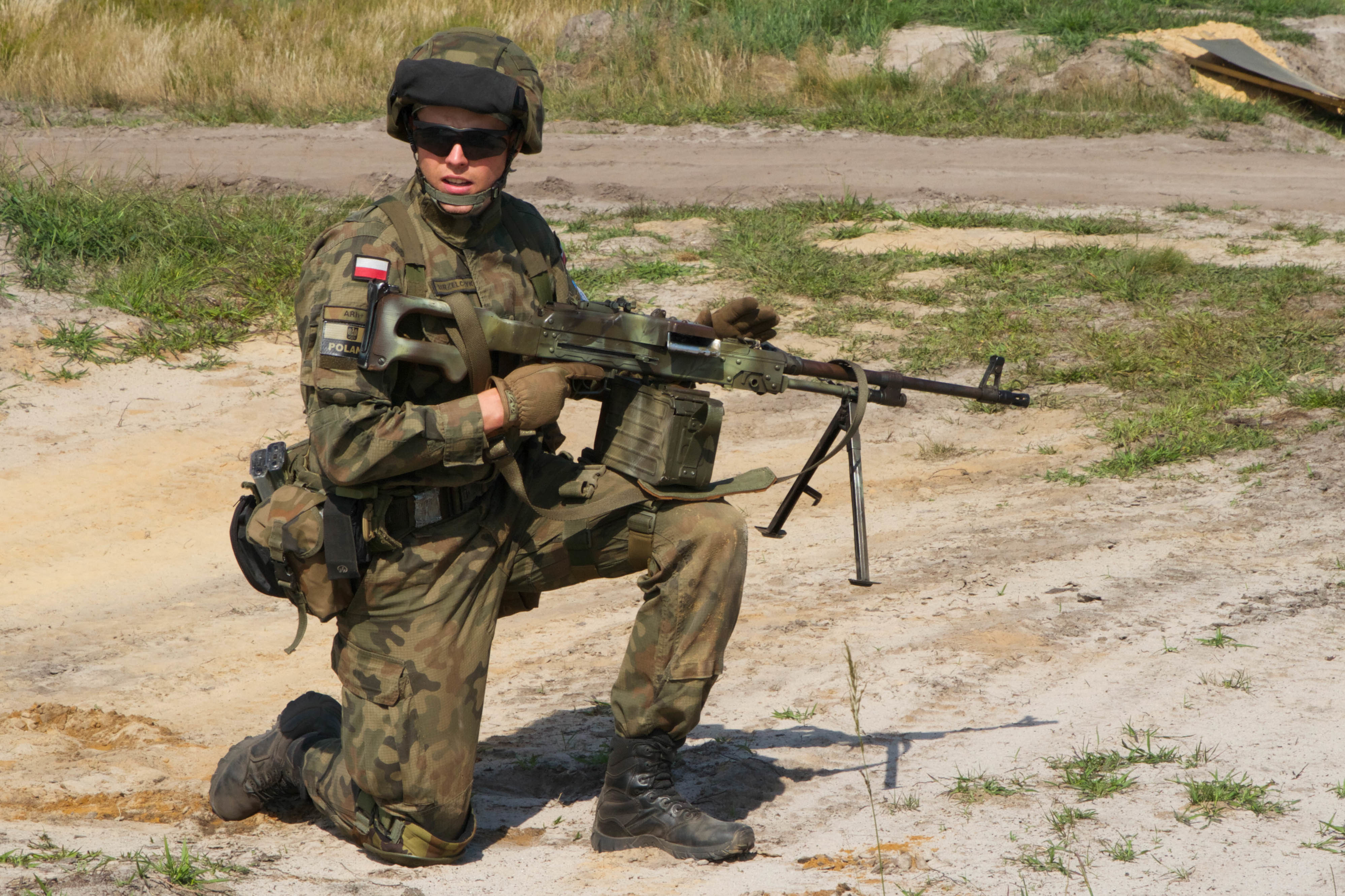 A Polish soldiers with the 6th Airborne Brigade participates in a buddy team live-fire exercise with Soldiers from P Troop, 4th Squadron, 2nd Cavalry Regiment, Aug. 4, 2015 at the Nowa Deba Training Area in Poland. The training is part of Operation Atlantic Resolve, an ongoing multinational partnership focused on combined training and security cooperation between NATO allies. Led by the mission command element of the 4th Infantry Division and in conjunction with European partner nations, Atlantic Resolve is intended to improve combined operational capability in a range of missions and ensure the continued peace and stability of Europe. (U.S. Army photo by Spc. Marcus Floyd, 7th Mobile Public Affairs Detachment) Unit: 7th Mobile Public Affairs Detachment DVIDS Tags: joint; NATO; combat; U.S. European Command; stryker; team; blackhawk; interoperability; Polish; combined arms; USEUCOM; allies; 3rd Infantry Division; Poland; JMTC; Javelin; partners; U.S. Army Europe; simulator; helicopter; air assault; U.S. Army; partnership; Airborne; training; 173rd; NATO Response Force; deployed digital training campus; DDTC; Atlantic Resolve; Operation Atlantic Resolve